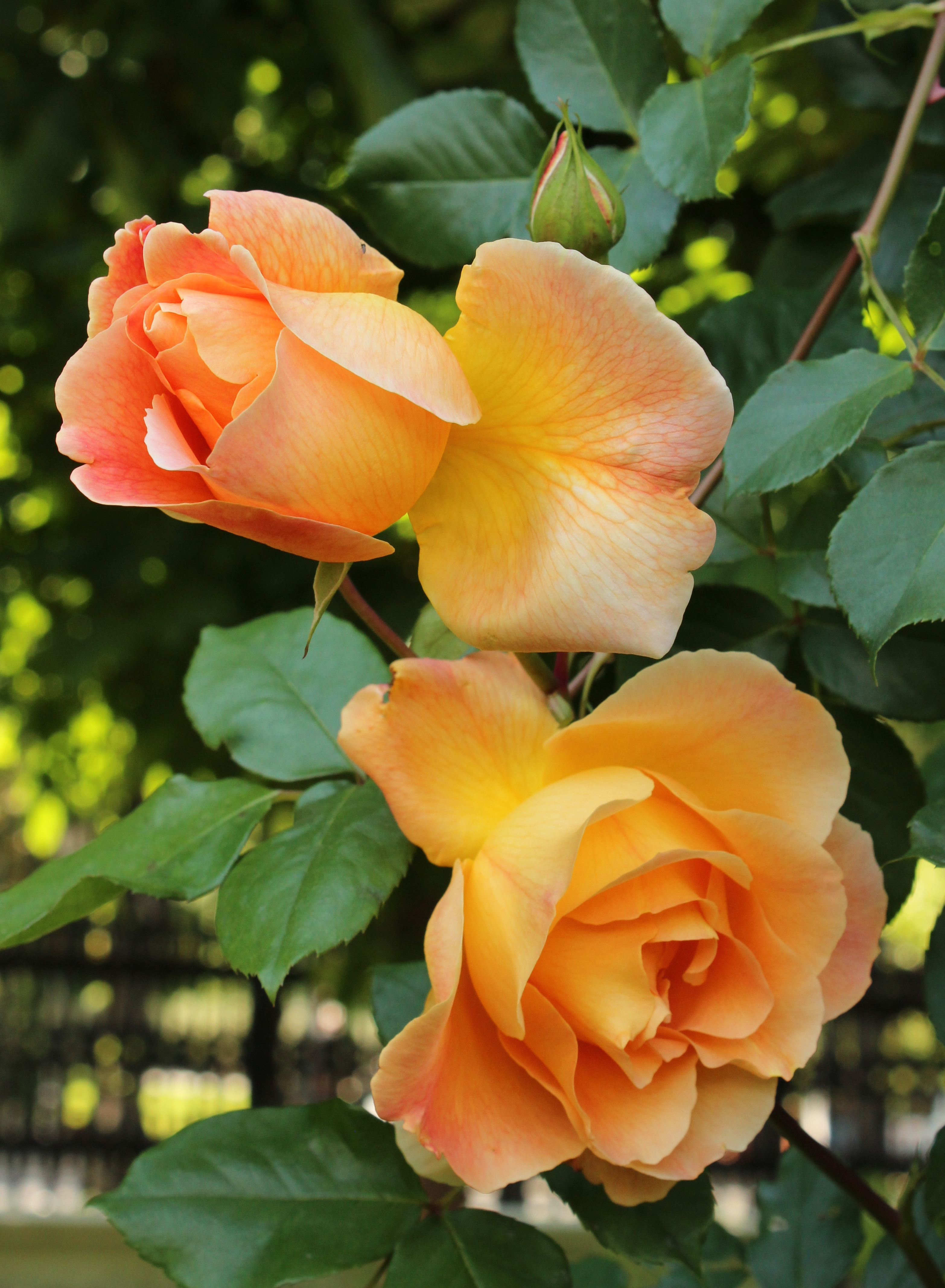 Rosa 'Puerta del Sol' in the Volksgarten in Vienna, Austria. Identified by sign.